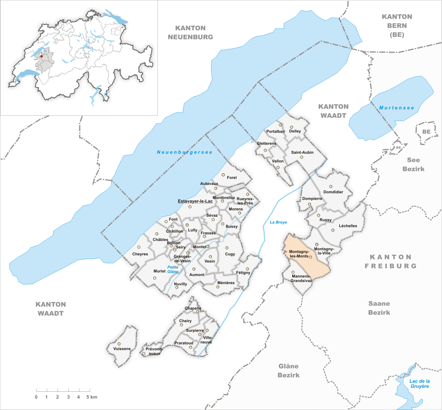 Municipality Montagny-les-Monts Artist: Tschubby